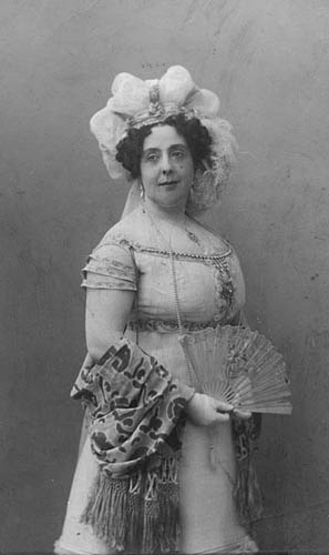 Aleksandra Yablochkina as Natalia Dmitriyevna in Griboedov's "Woe from Wit".